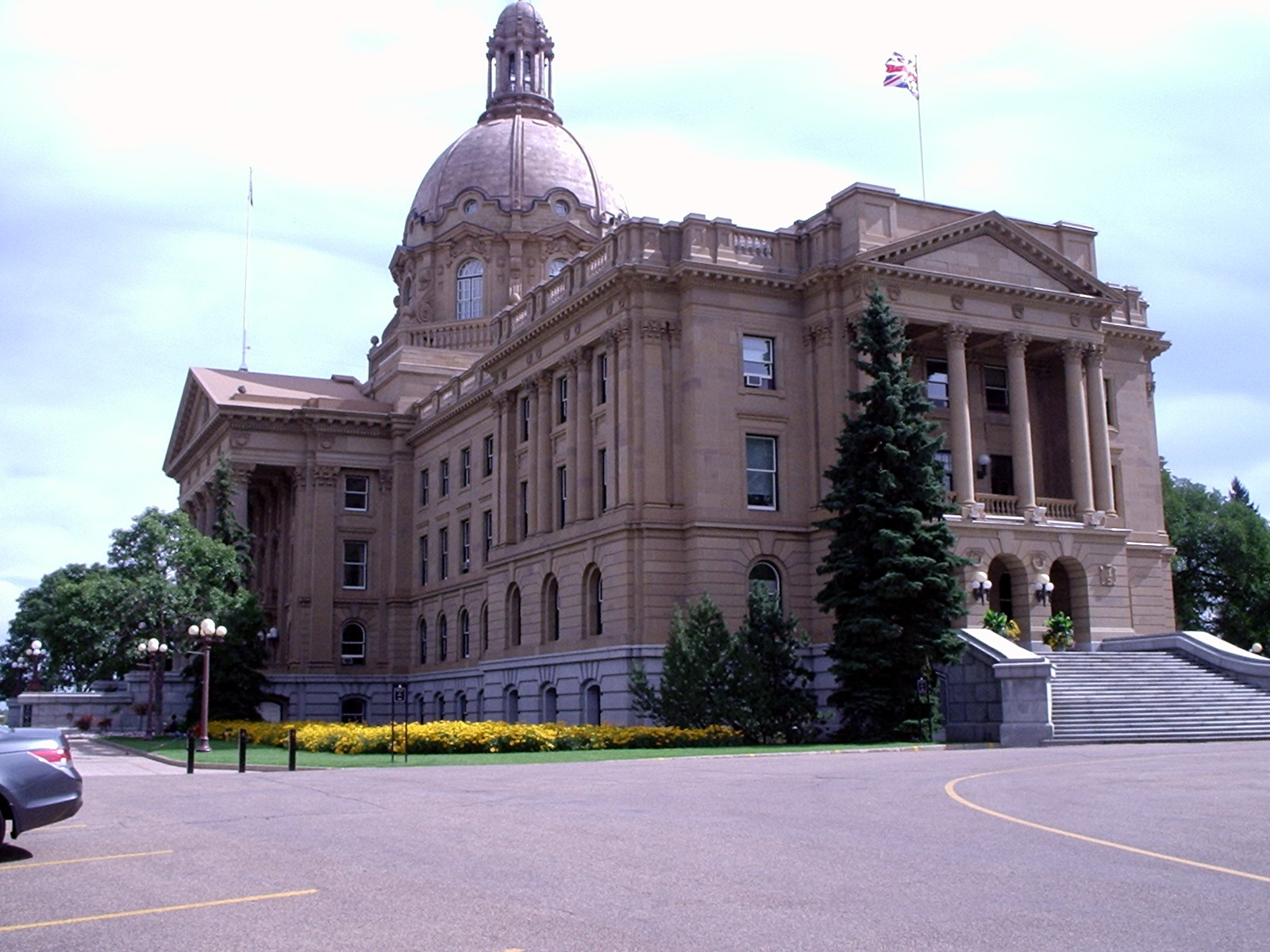 Alberta Legislative Building in Edmonton, Canada